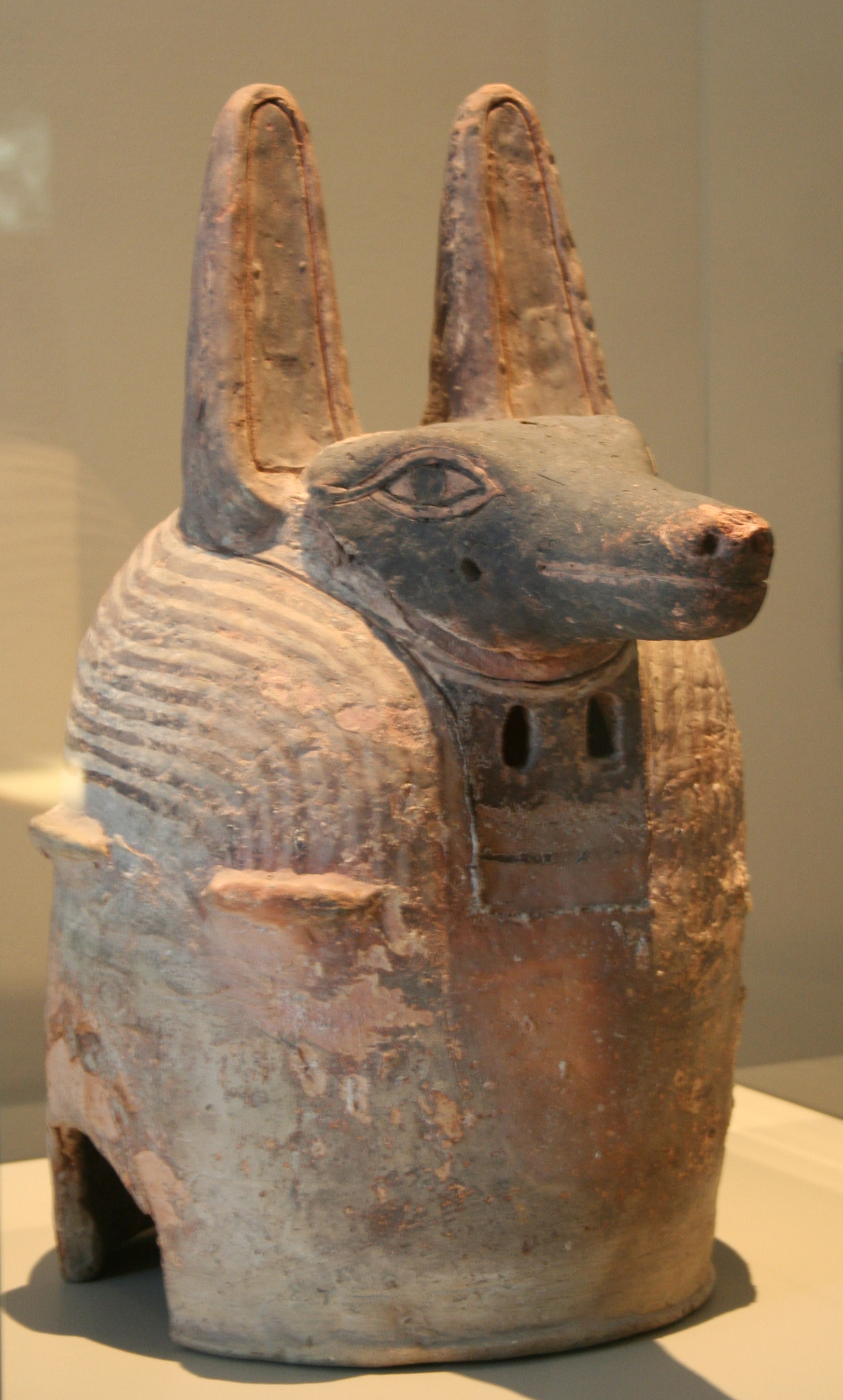 Anubis mask. Late period. Clay. H 49 cm. IN 1585. Roemer-Pelizaeus Museum, Hildesheim